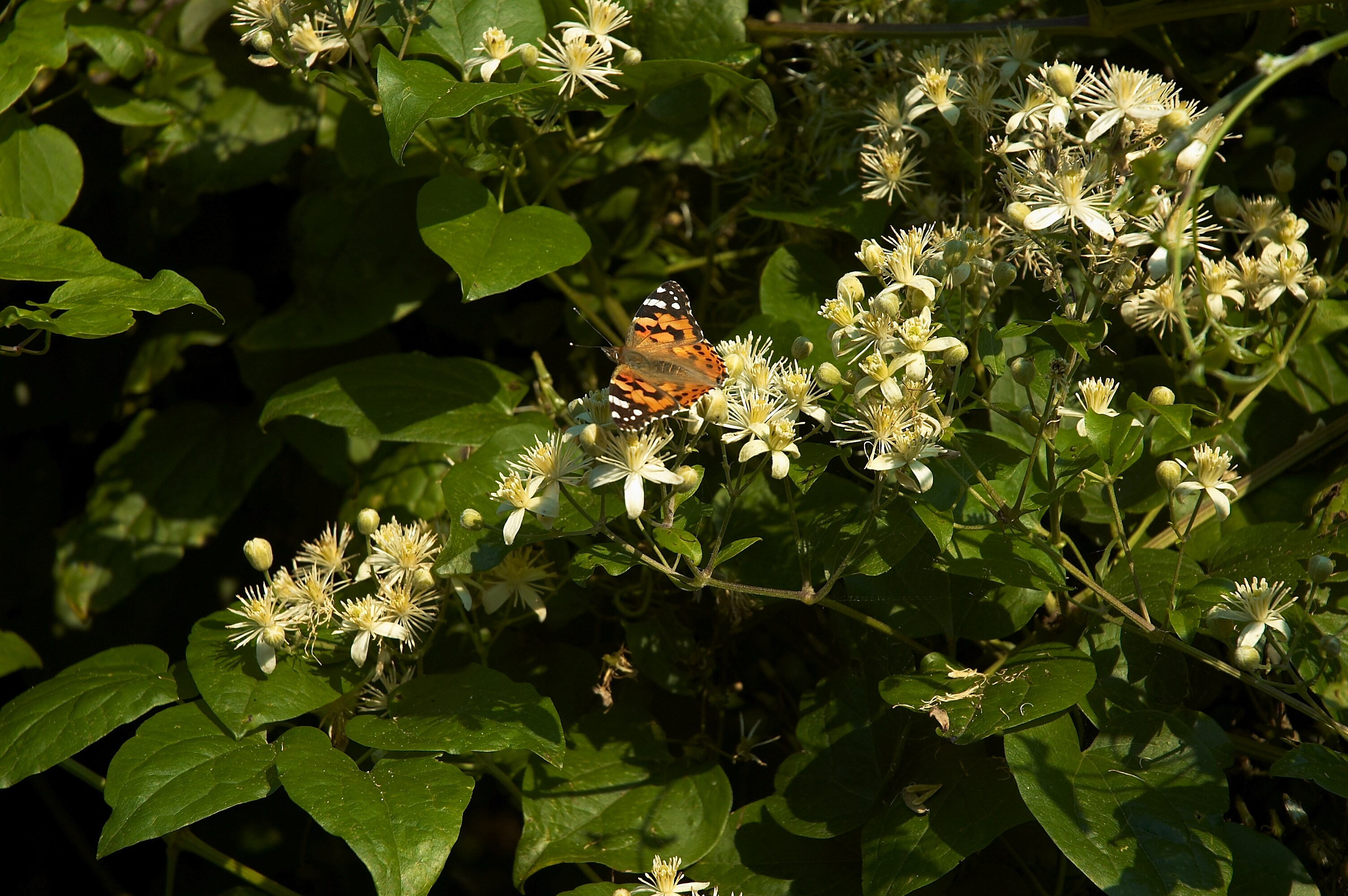 Old man's beard and Traveller's Joy